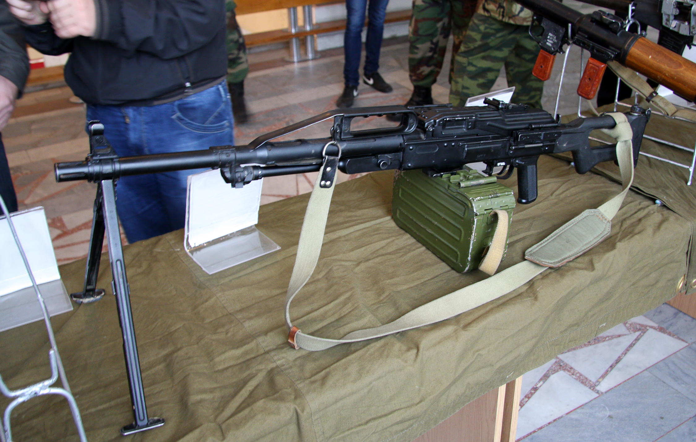 PKP Pecheneg in Conscript day 2011